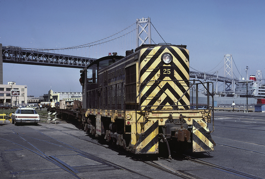 State Belt ALCO S2 switching pier 32-34 as TOFC flats are loaded onto ship bound for China